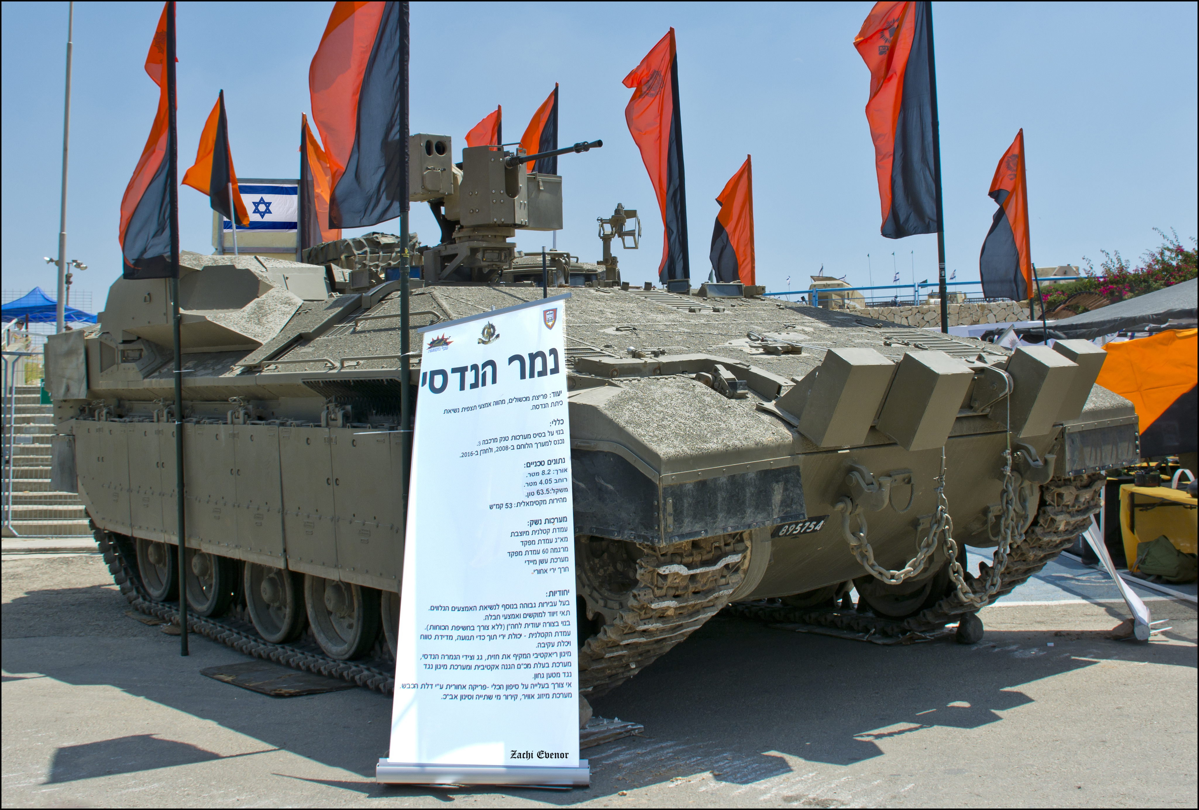 Nammer CEV of the Israel Defense Forces Combat Engineering Corps Israel 68th Independence Day, Ground Army Exhibition, Yad LaShiryon, Israel